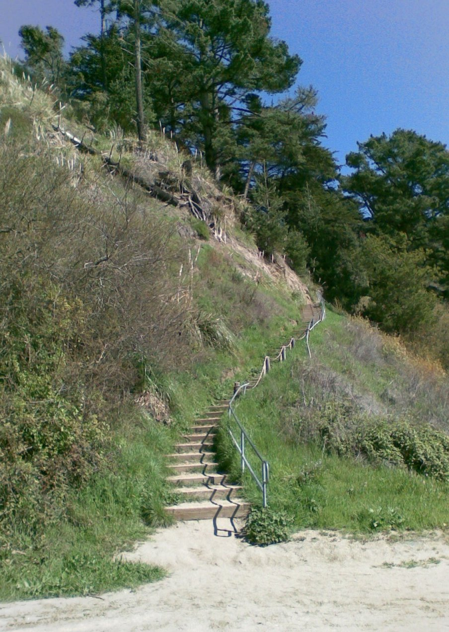 New Brighton State Beach near Santa Cruz, California Stairs leading from beach to camp grounds